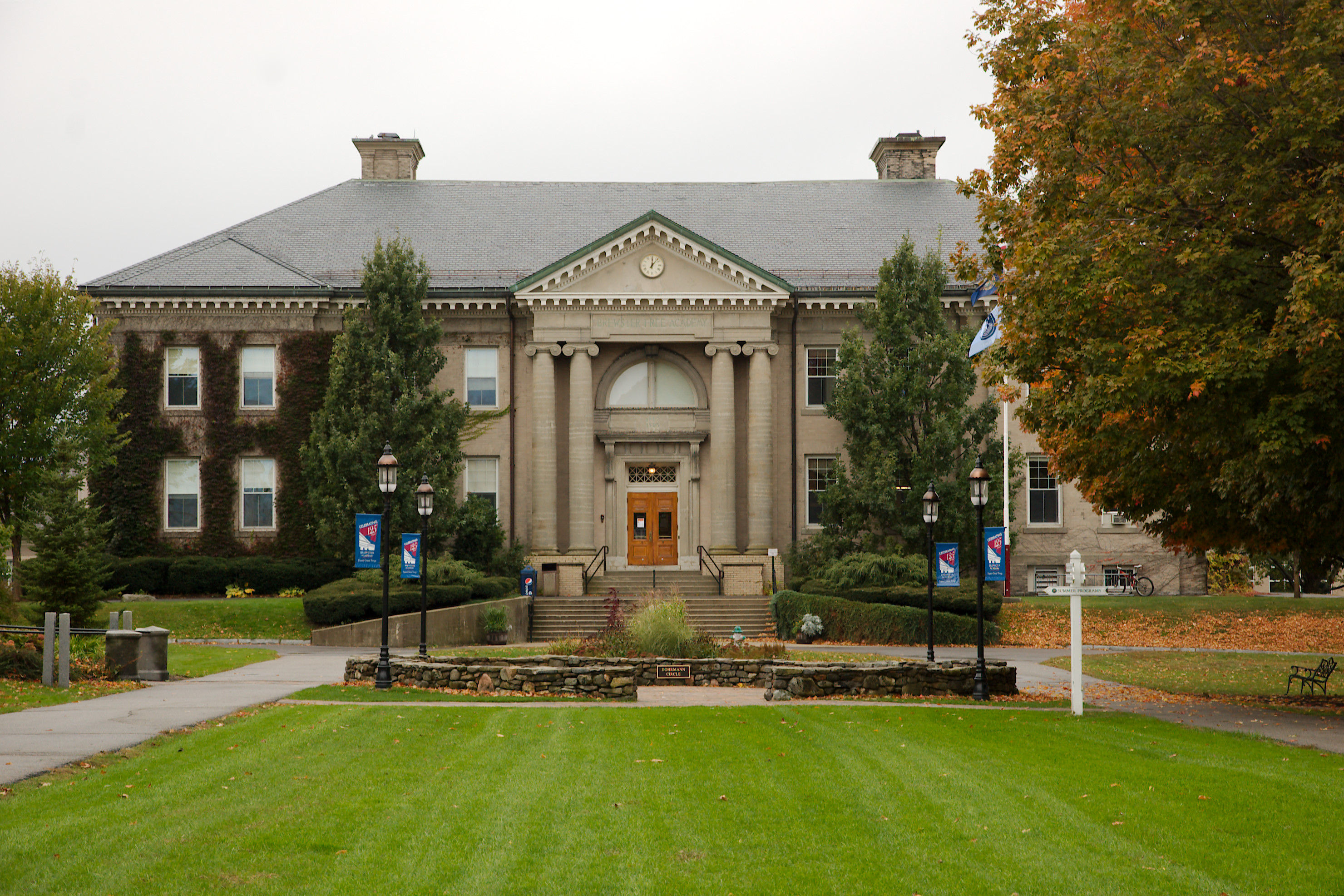 Brewster Academy, a private boarding school in Wolfeboro, New Hampshire